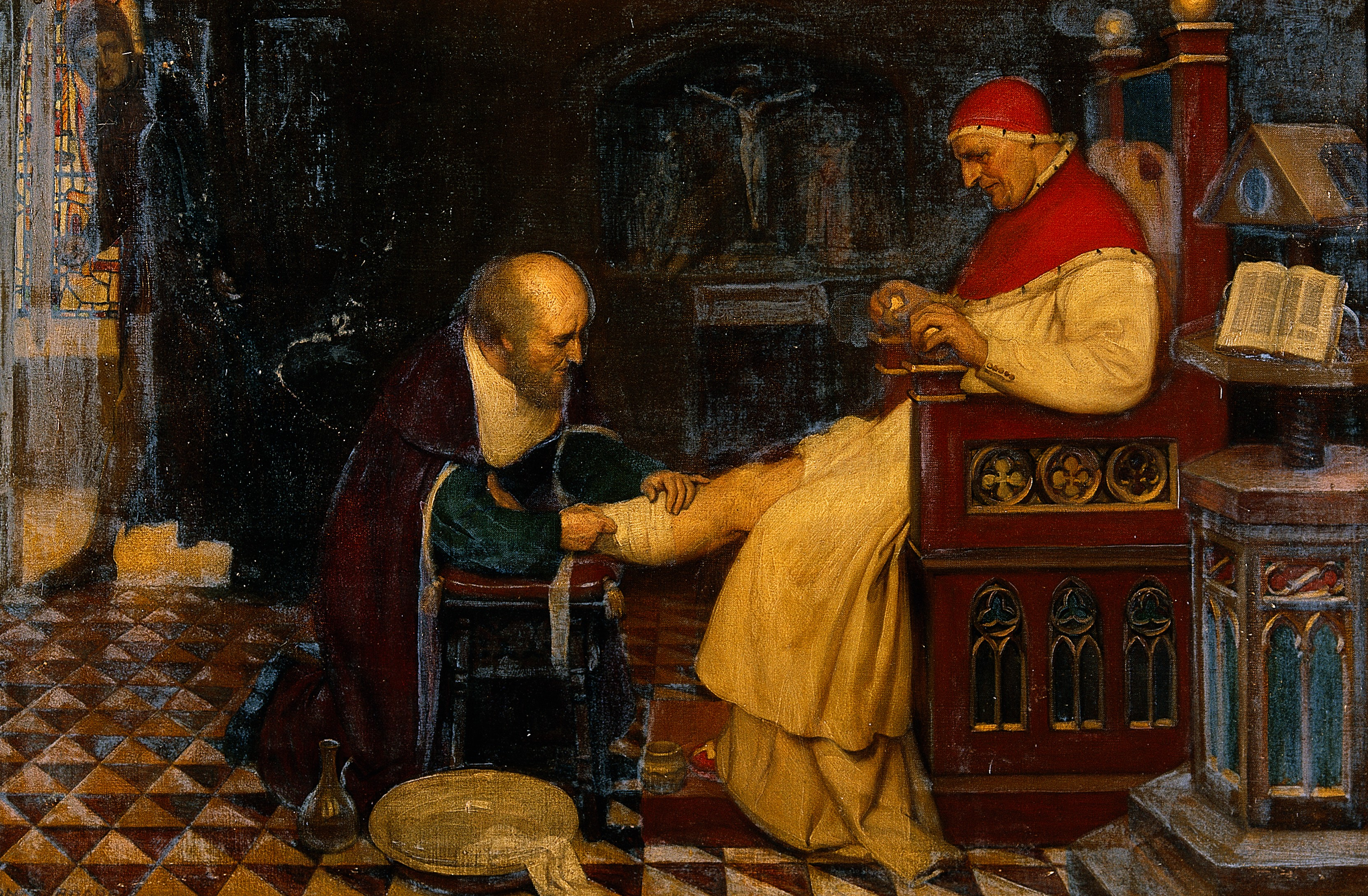 Guy de Chauliac bandaging the leg of Pope Clement VII at Avignon, while Petrarch, his enemy, jealous of his influence, watches him, ca. 1348. Oil painting by Ernest Board. Iconographic Collections Keywords: Ernest Board